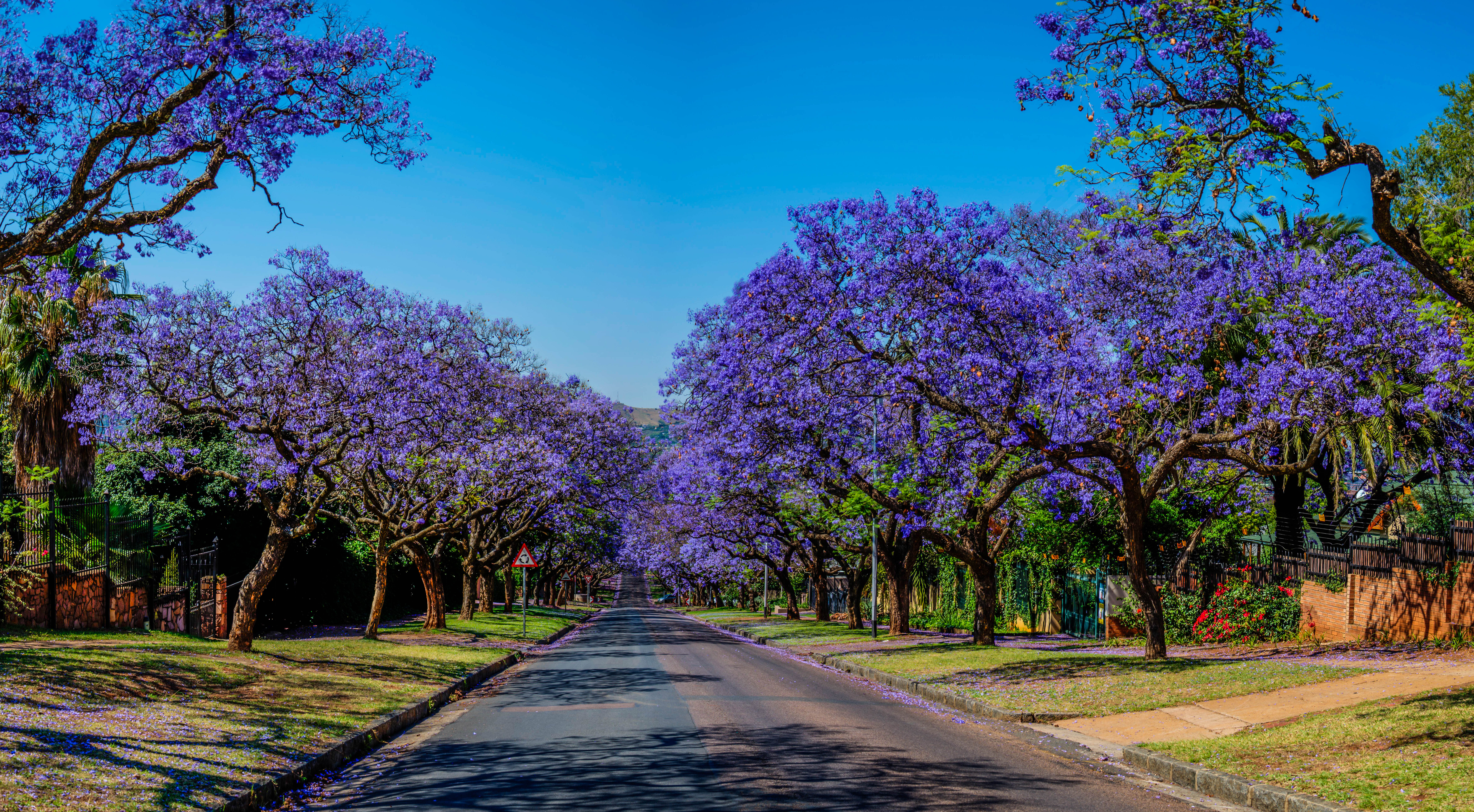 Jacaranda Trees, Becket Street Pretoria